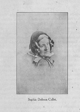 Portrait of the feminist author Sophia Dobson Collet (1822-1894) taken from The Life and Letters of Raja Rammohun Roy, edited by Hem Chandra Sarkar (1914)